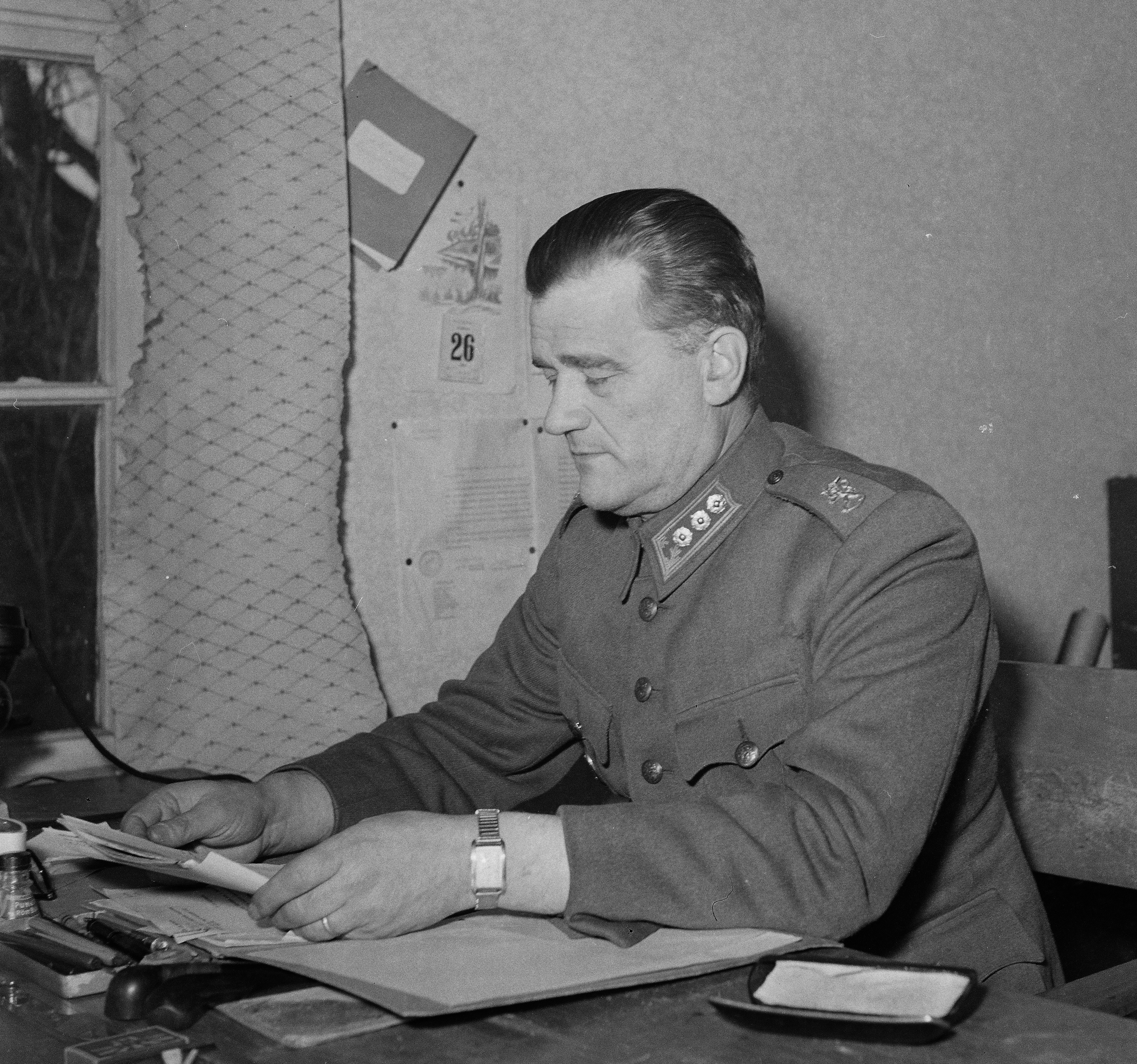 Photograph of the Finnish colonel Lauri Maskula (1893–1953) at his desk.